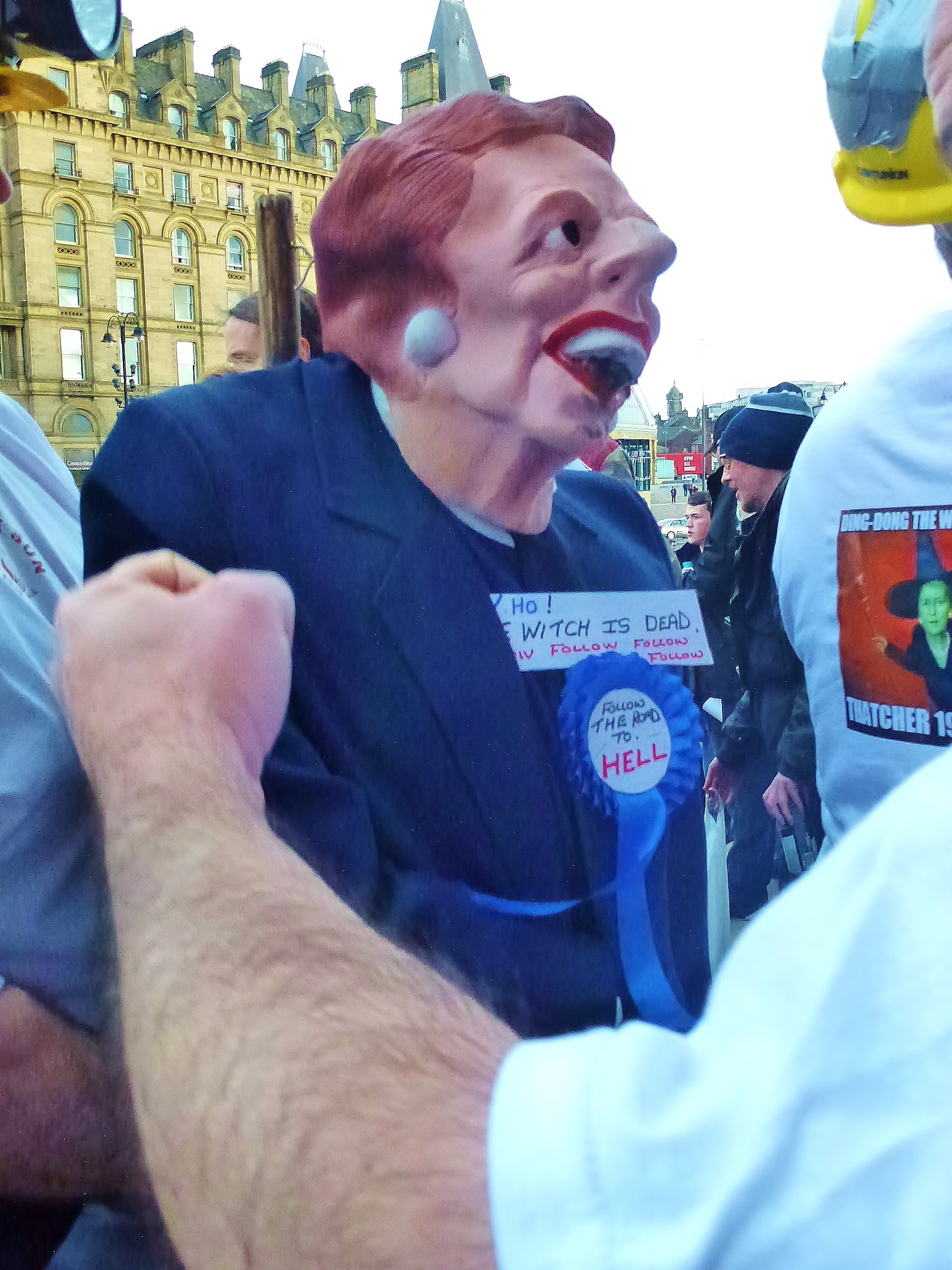 Demonstration in Liverpool at the same time as Thatcher's funeral